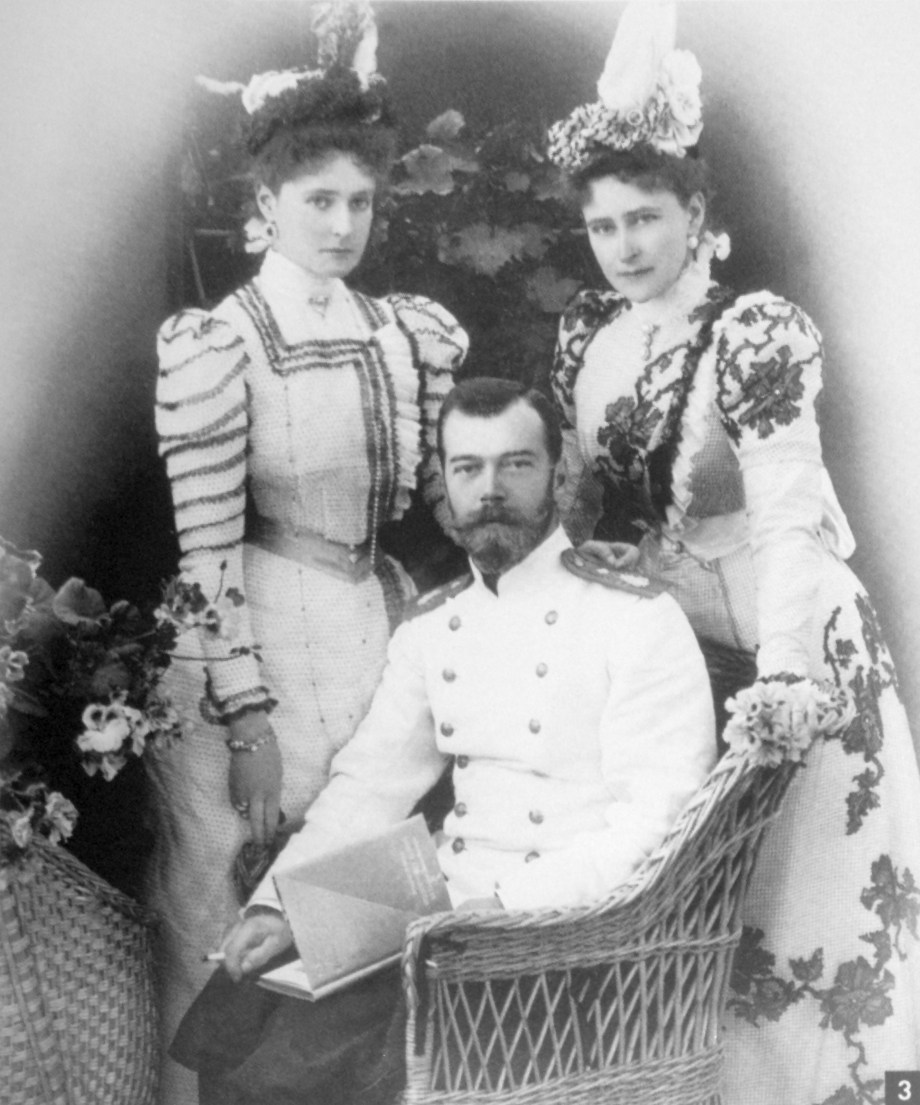 Emperor Nicholas II and Empress Alexandra Feodorovna and her sister Grand Duchess Elizaveta Fedorovna.